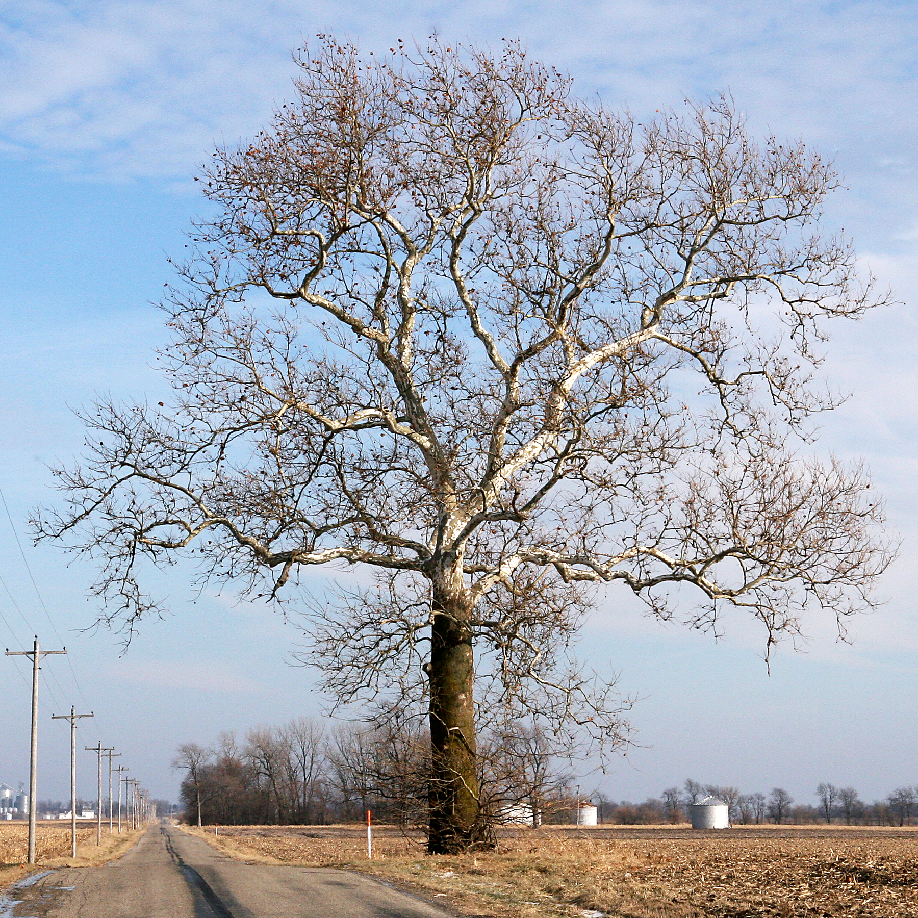 An American sycamore tree (Platanus occidentalis) stands along a road in rural Warren County, Indiana. Photo looks east along County Road 300 North between Stewart and Sycamore Corner.